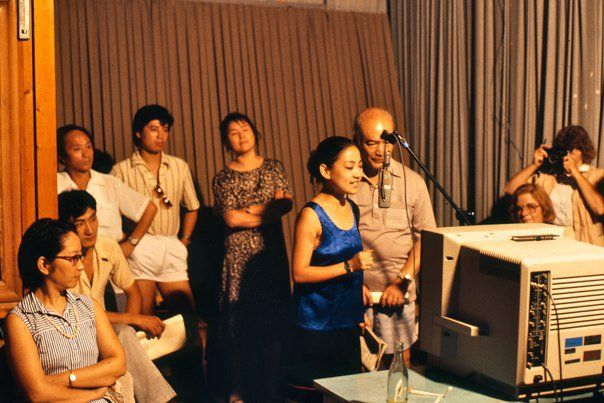 Chinese voice actors actors dubbing a television show as others look on 1987.jpg Other information Photo by George Garrigues.